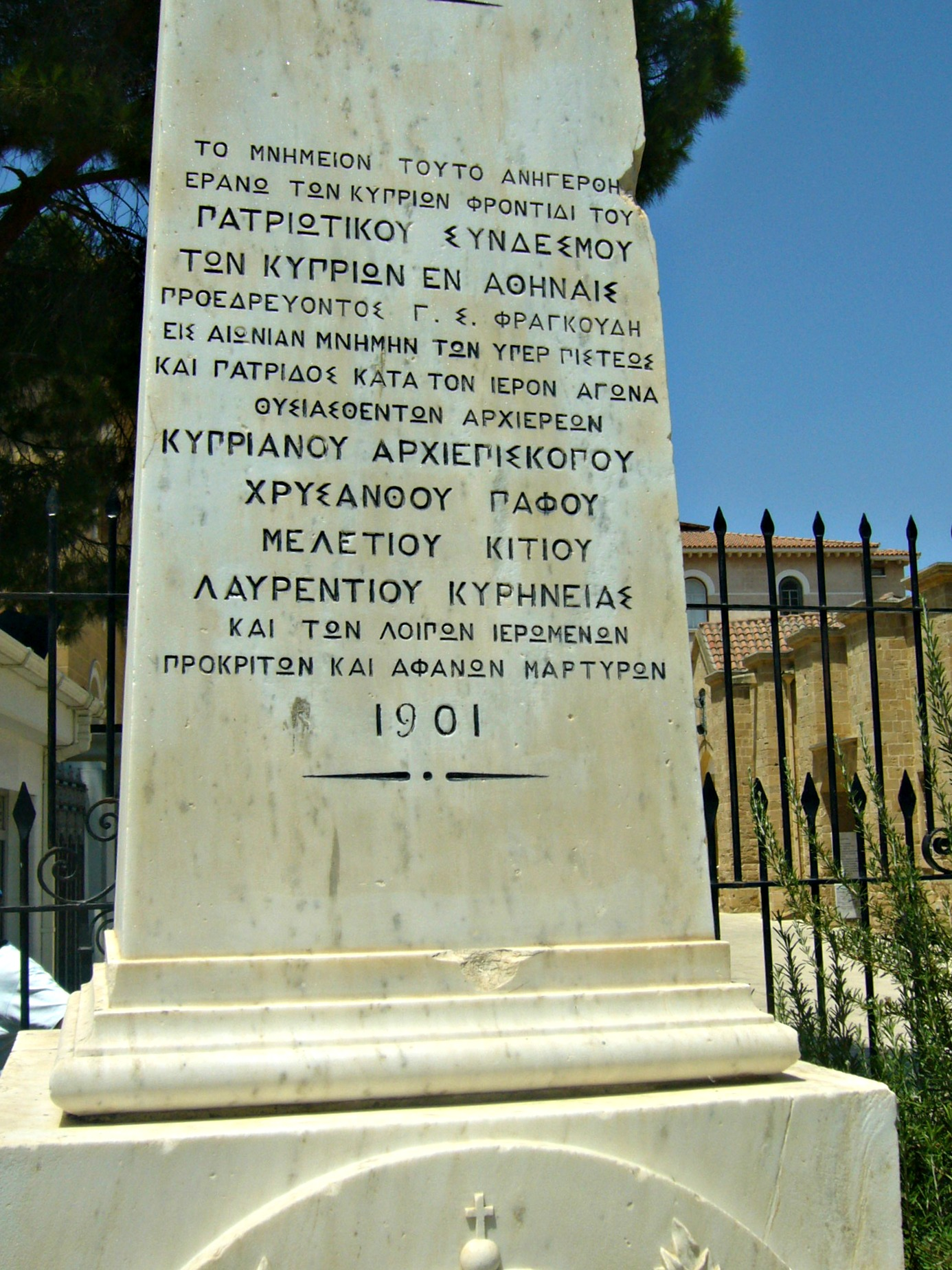 Text below the bust of Kyprianos of Cyprus in Nicosia, erected in memory of the hanged archbishop Kyprianos and executed bishops - Chrysanthos of Paphos, Meletios of Kition and Lavrentios of Kyrenia, and the thousands, who died fighting for the freedom of Cyprus.